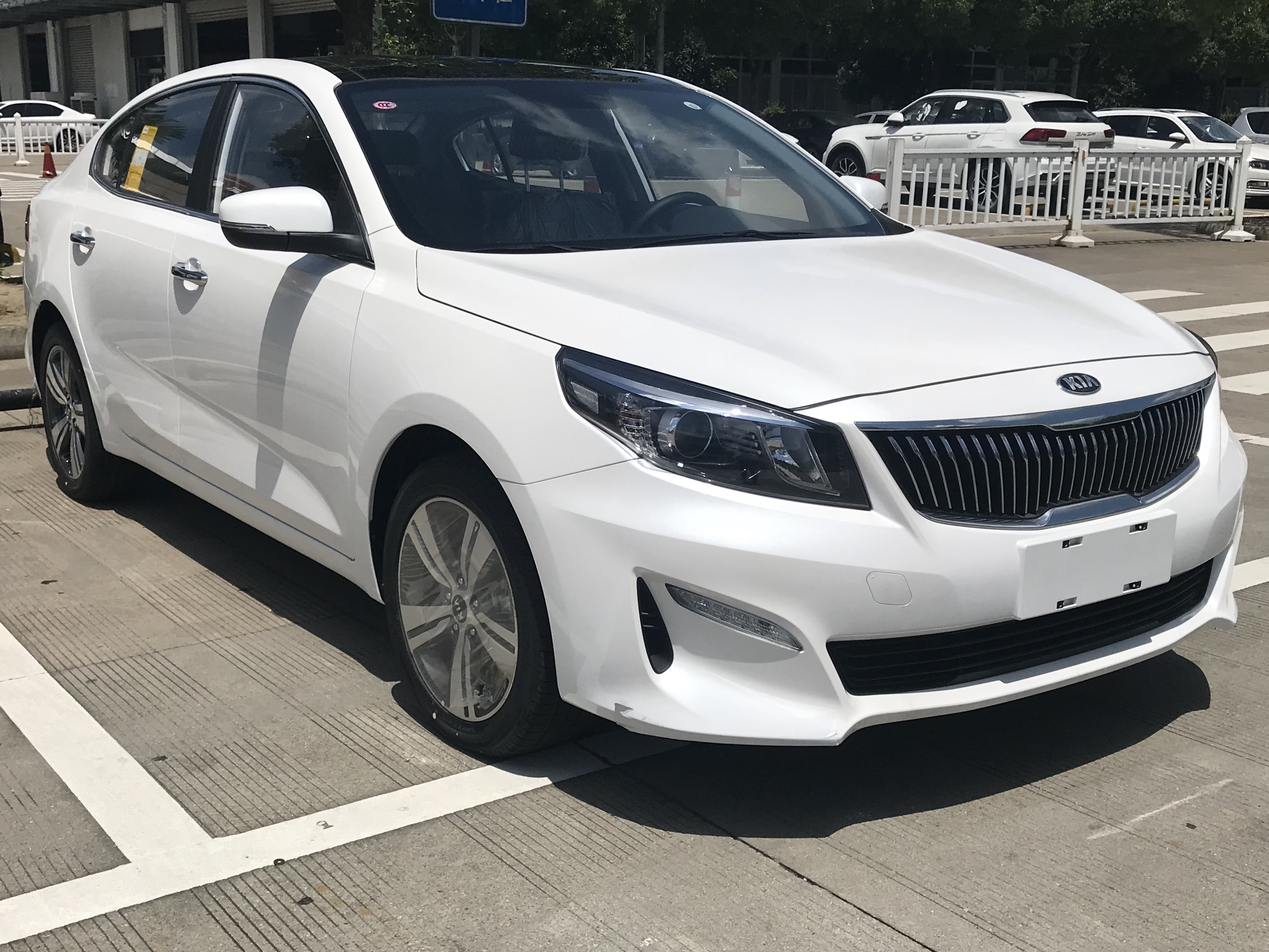 Kia K4 Cachet facelift